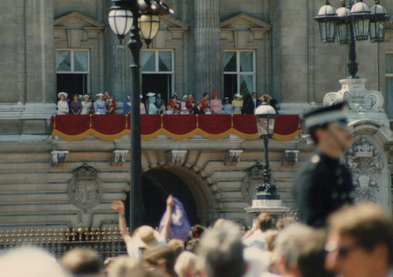 British Royal family on balcony of Buckingham palace 1986, London, UK, after trooping of the colour. July 1986